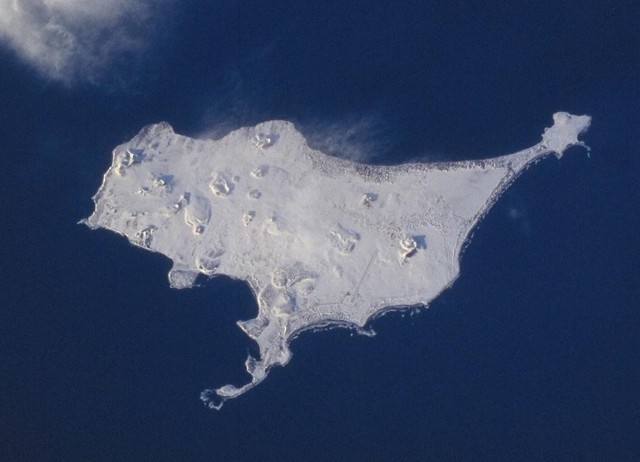 Saint Pauls Island, Pribilof Islands